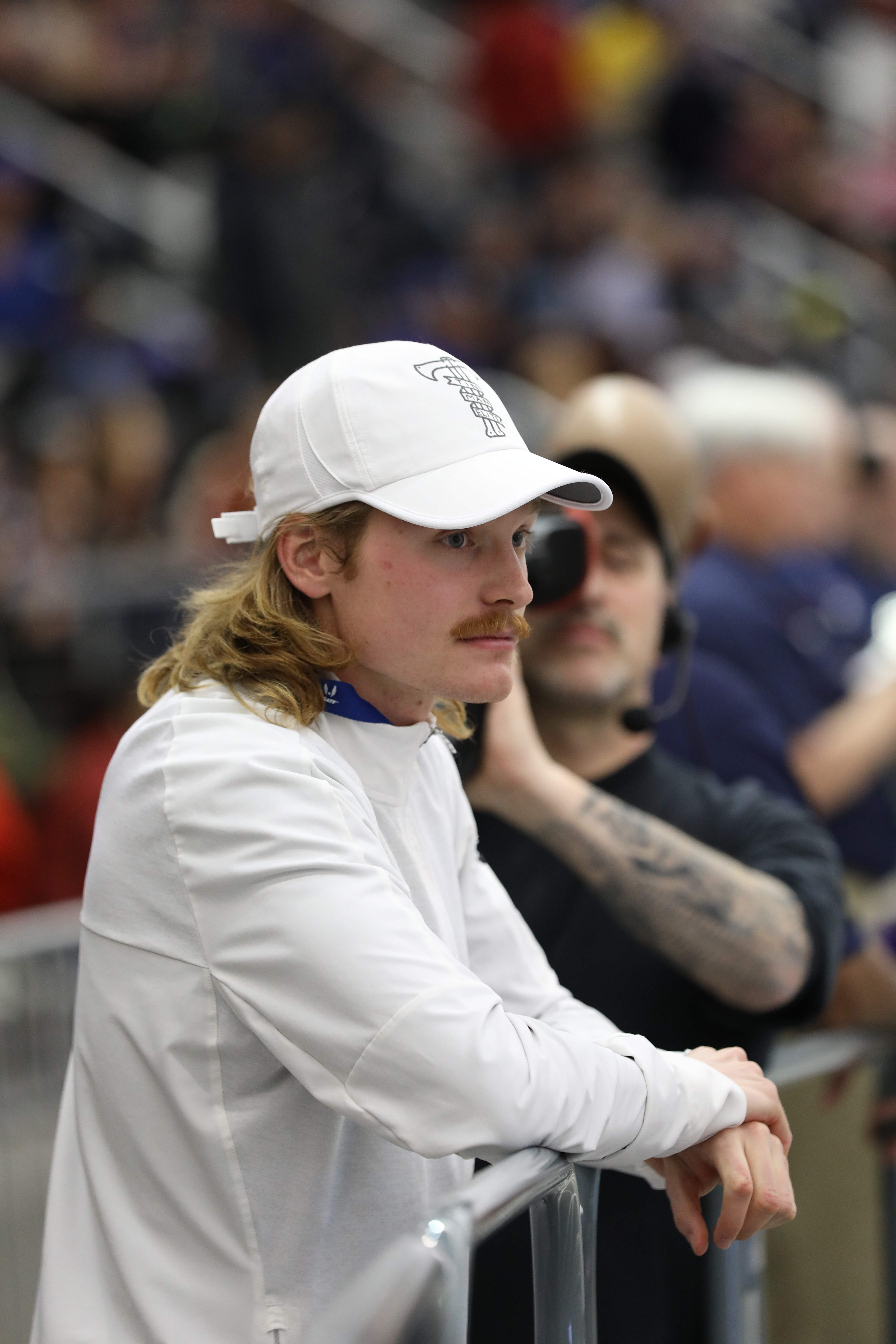 2019 USA Indoor Track and Field Championships